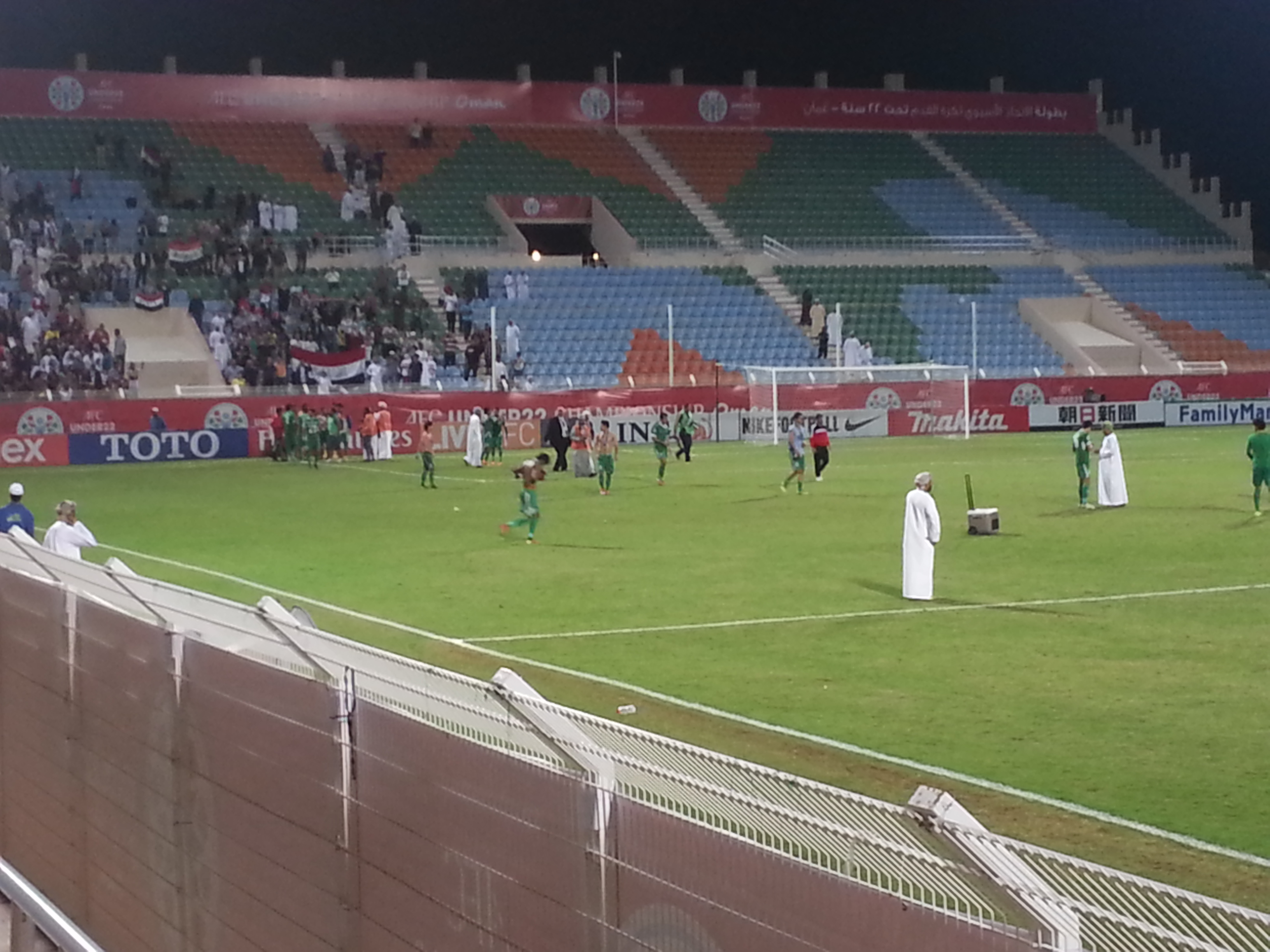 واجهة استاد السيب